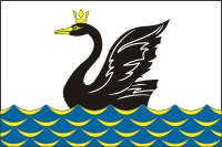 Emanzhelinsk (Chelyabinsk oblast), flag